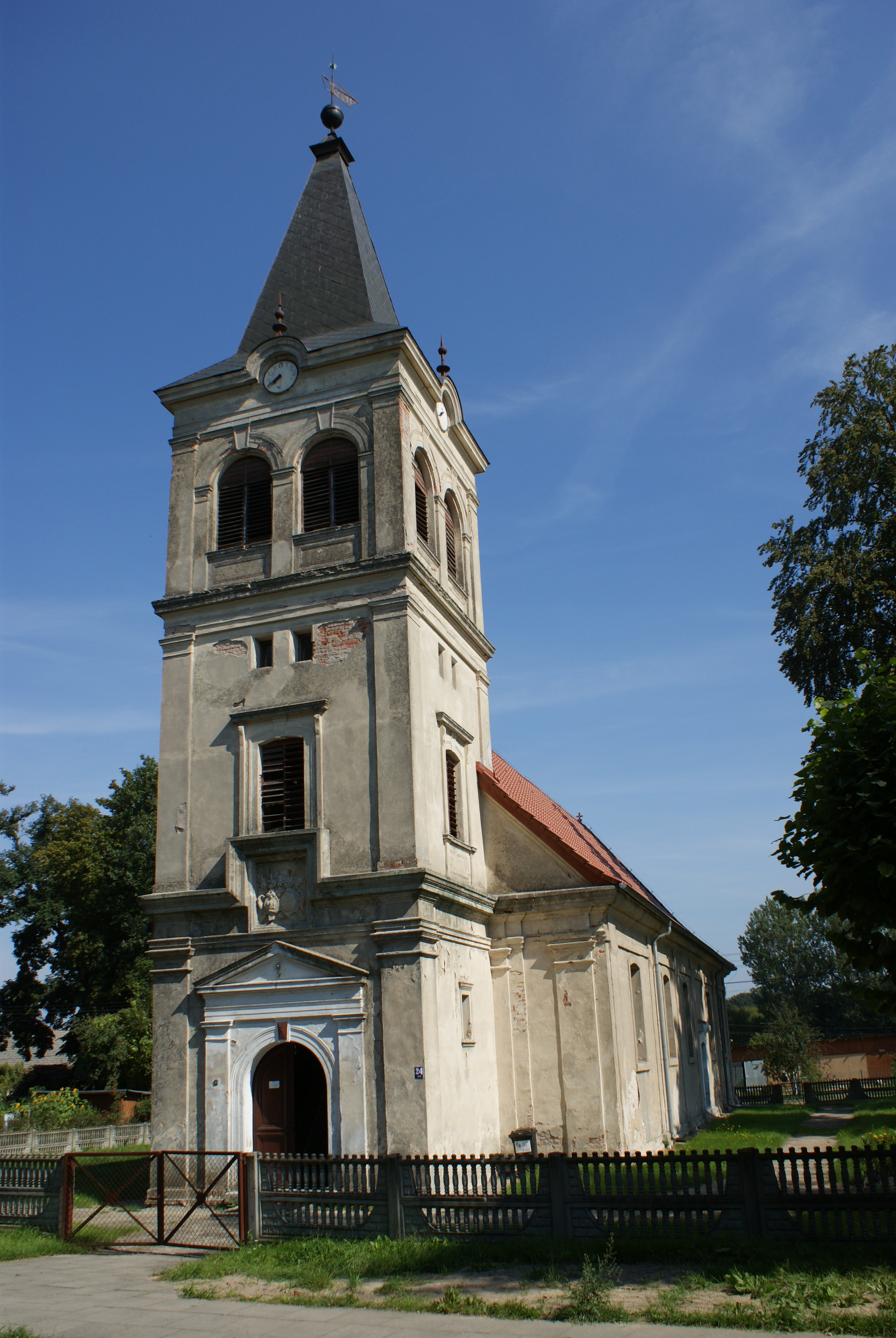 Church in Dolsk near Mysliborz (NW Poland)